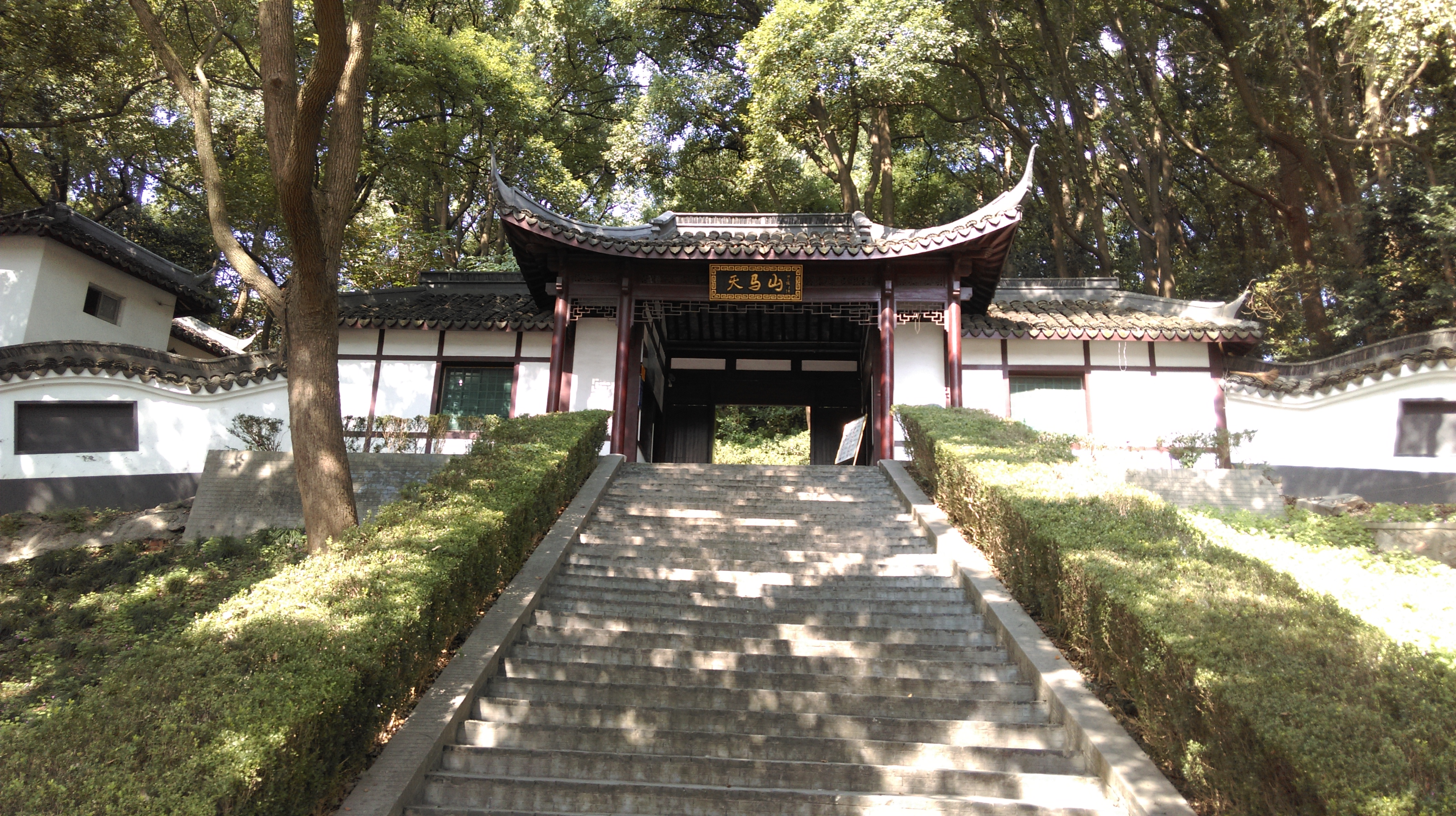 West gate of TianMa Mountain in Songjiang, Shanghai, China